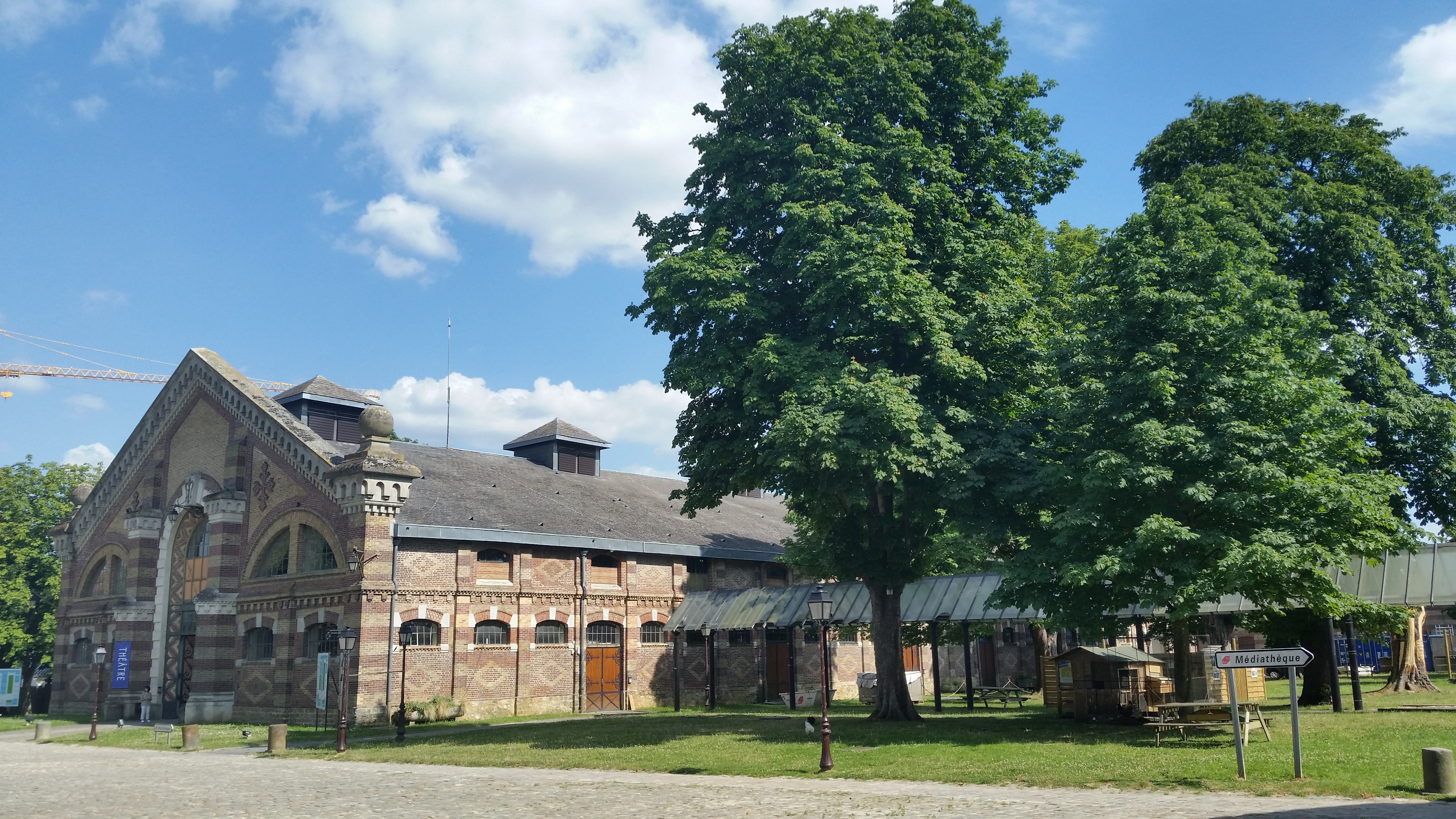 Inside the Buisson's farm in Noisier (Fr)